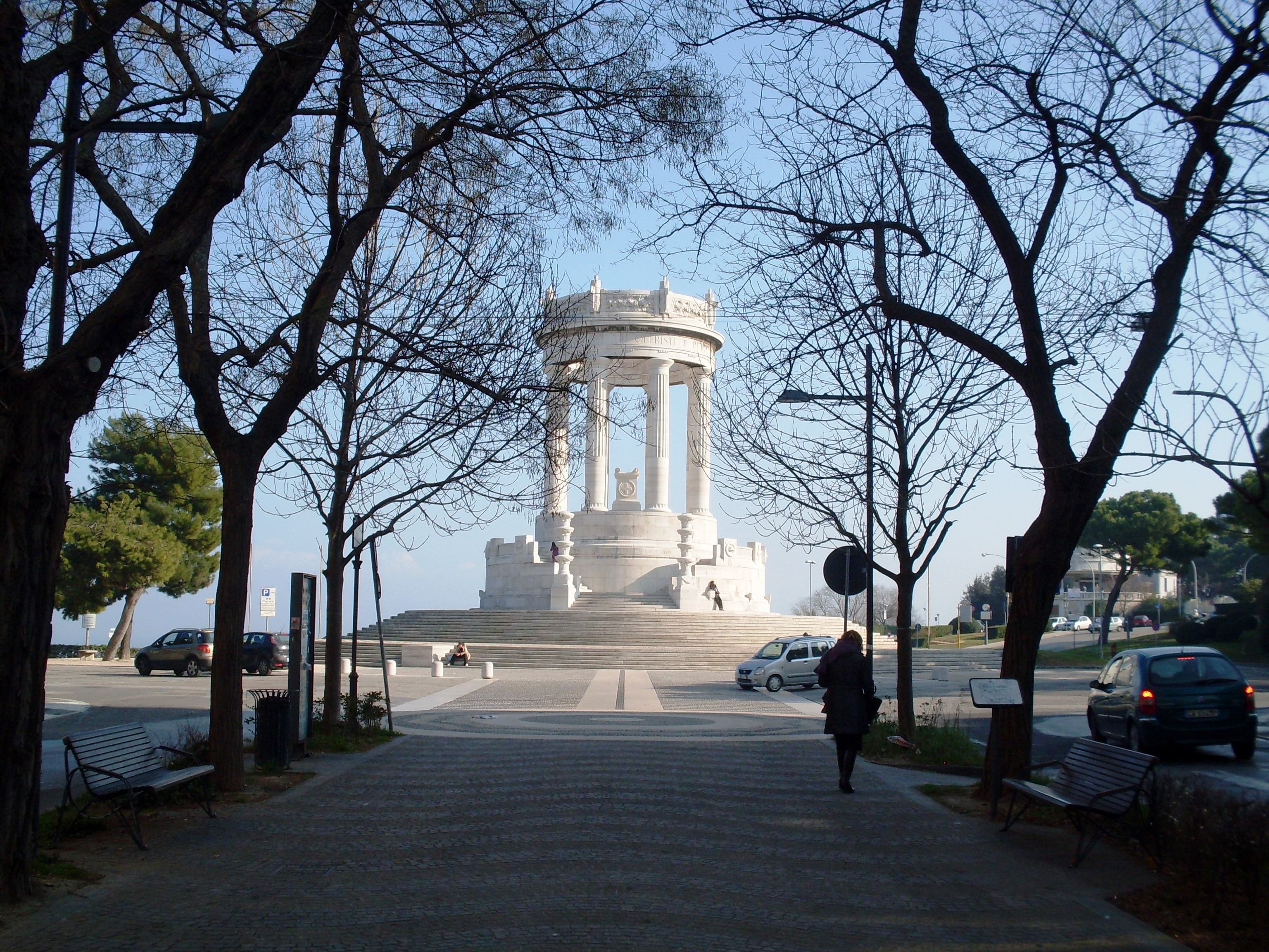 Italy Ancona Passetto Monument from Victoria avenue